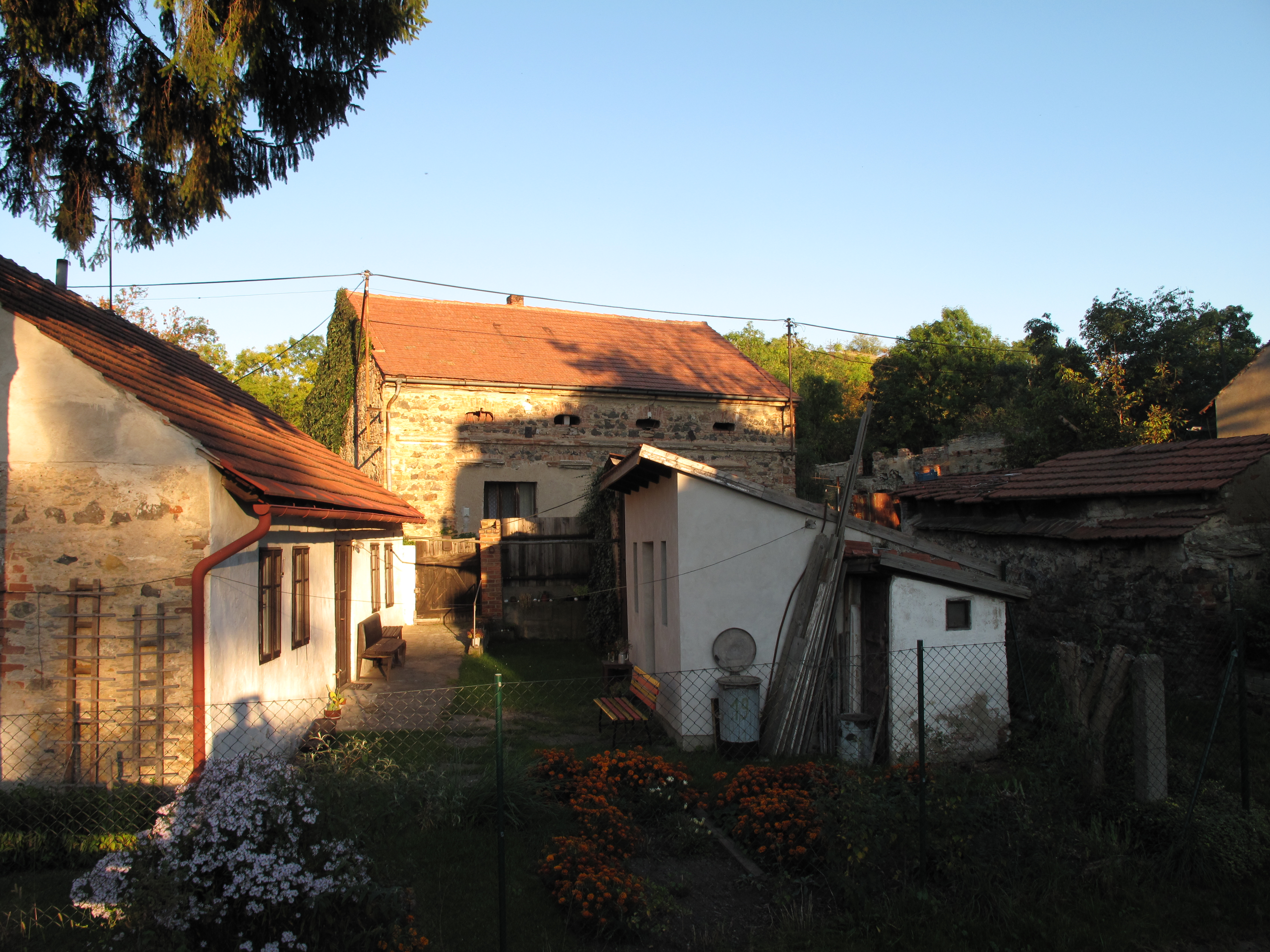 Yard and barn in Kopeč village, Mělník District, Czech Republic.